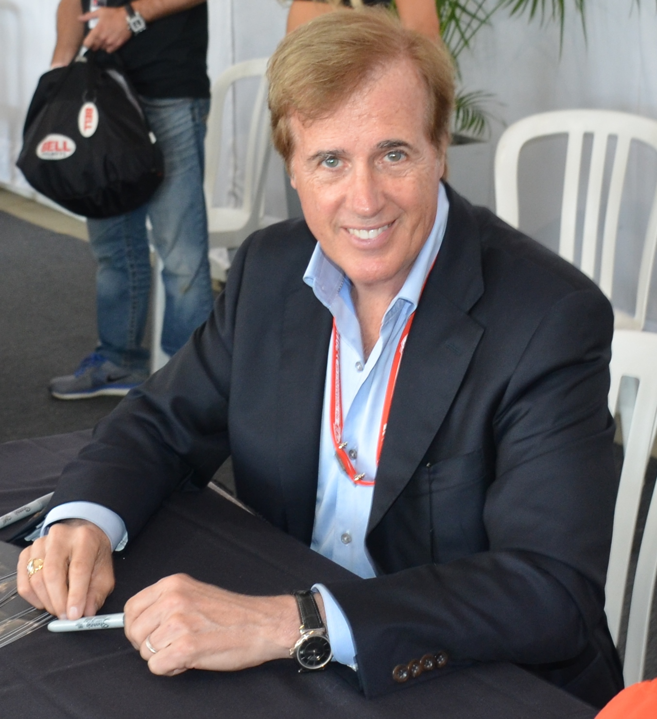 Danny Sullivan at the 2015 Indianapolis 500